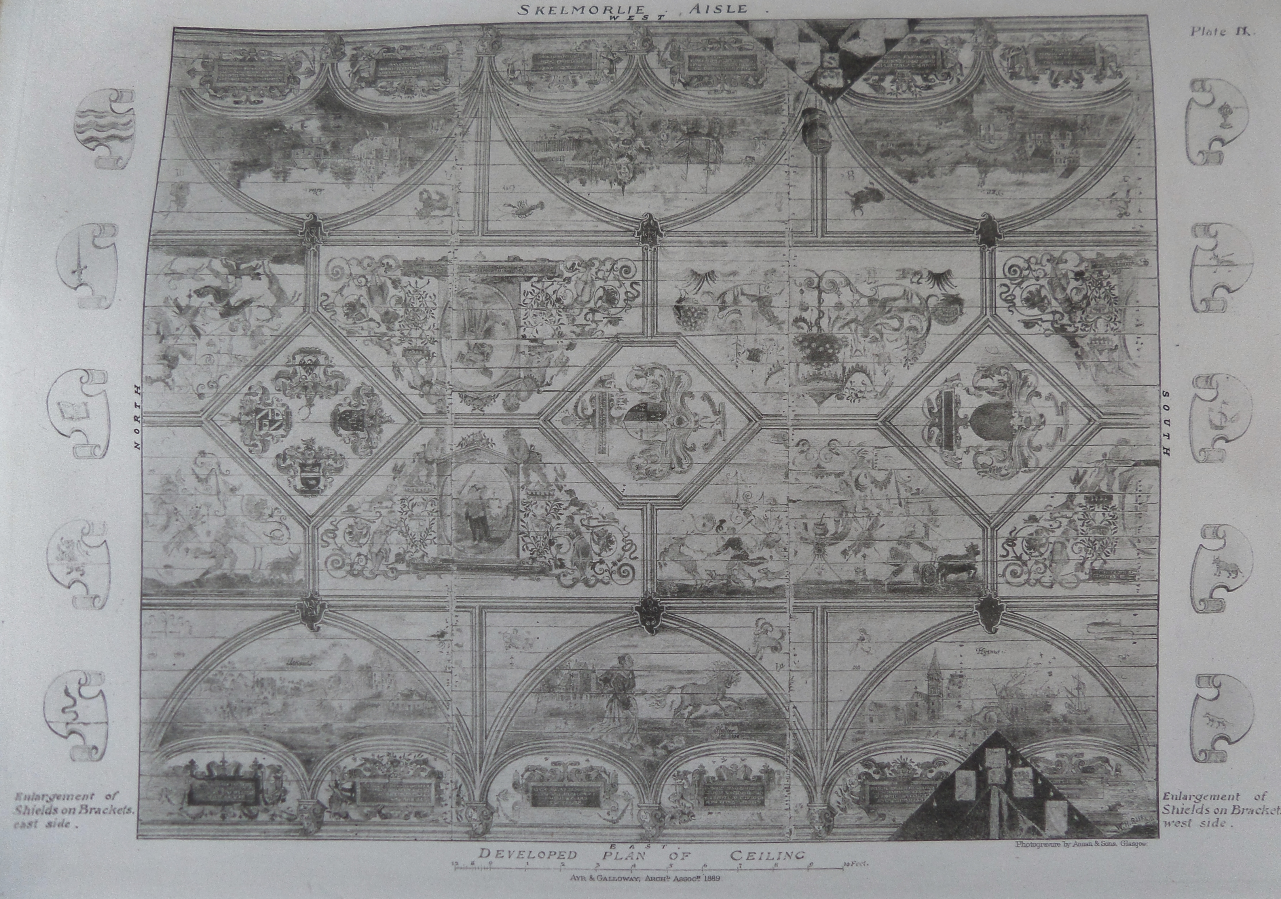 Detail of the ornate ceiling at the Skelmorlie Aisle in Largs - painted in 1638 by J. Stalker.